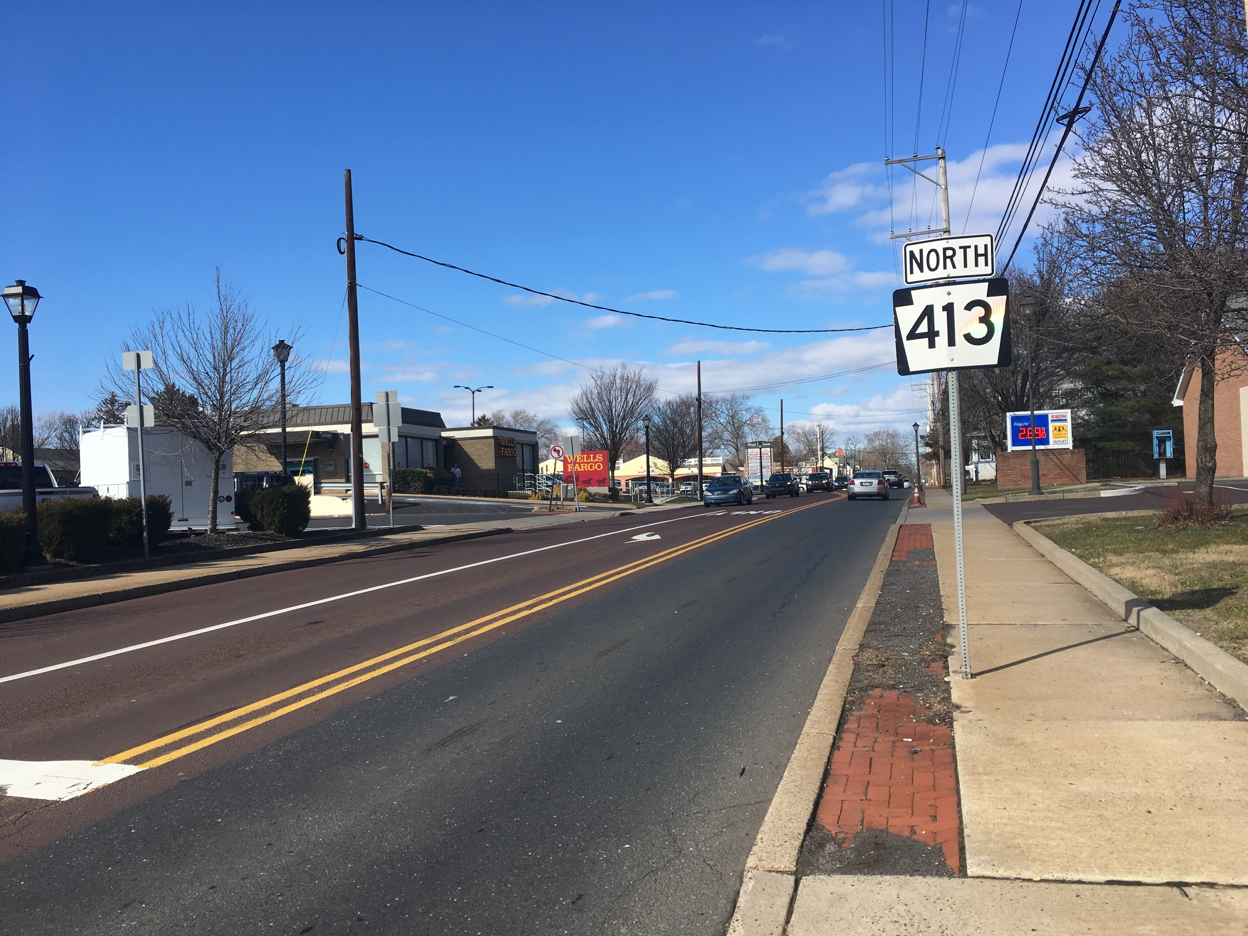 Northbound Pennsylvania Route 413 (Pine Street) past the intersection with Pennsylvania Route 213 (Maple Avenue) in Langhorne, Pennsylvania.